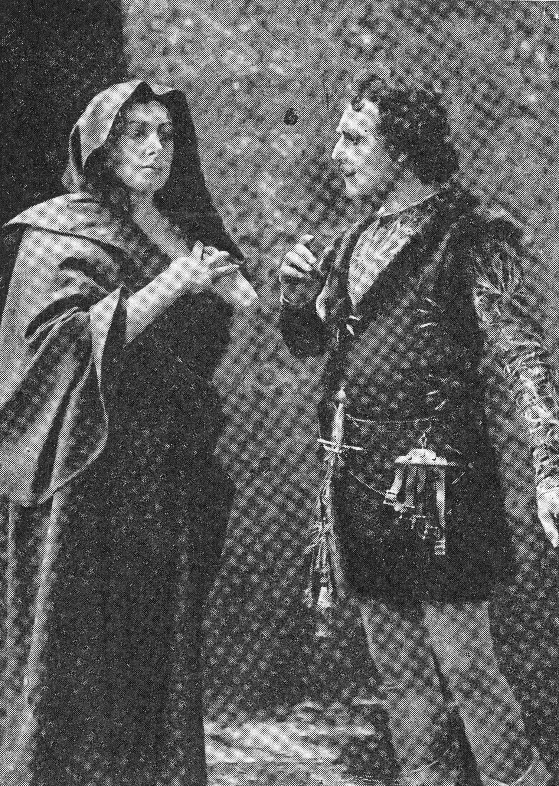 Gerda Lundequist and Anders de Wahl as Mona Vanna and Prinzivalle in Maeterlinck's romantic drama Mona Vanna.